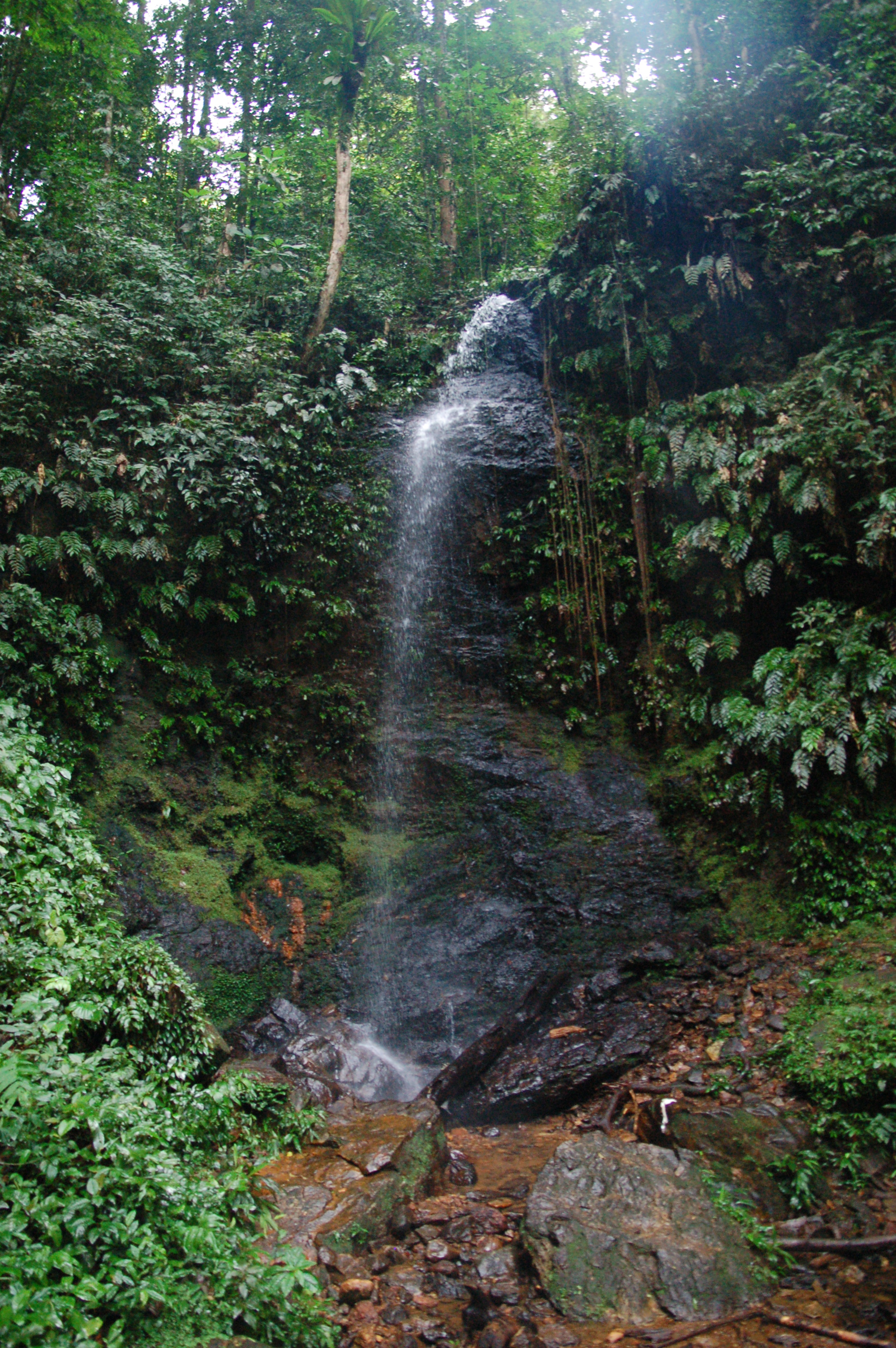 The Leo fall in the Brownsberg park in Suriname